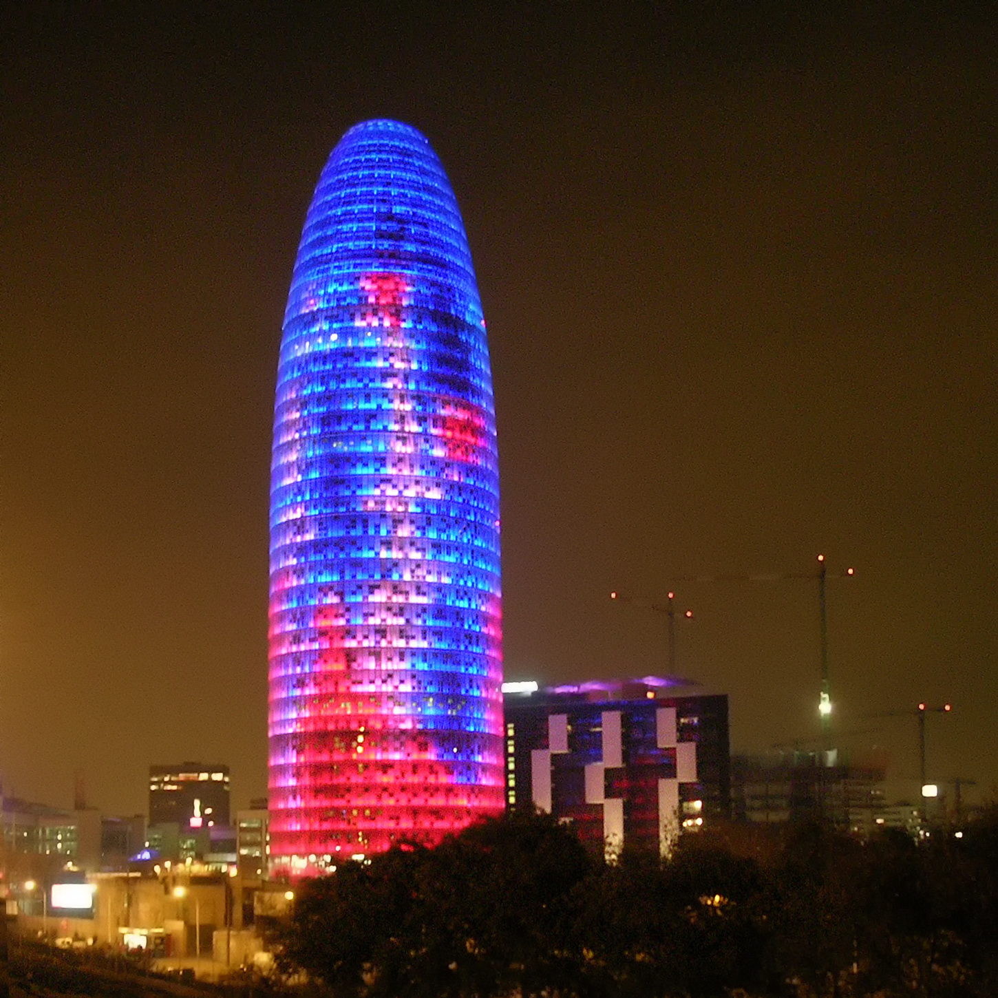 Torre Agbar in Barcelona, Spain, architect: Jean Nouvel